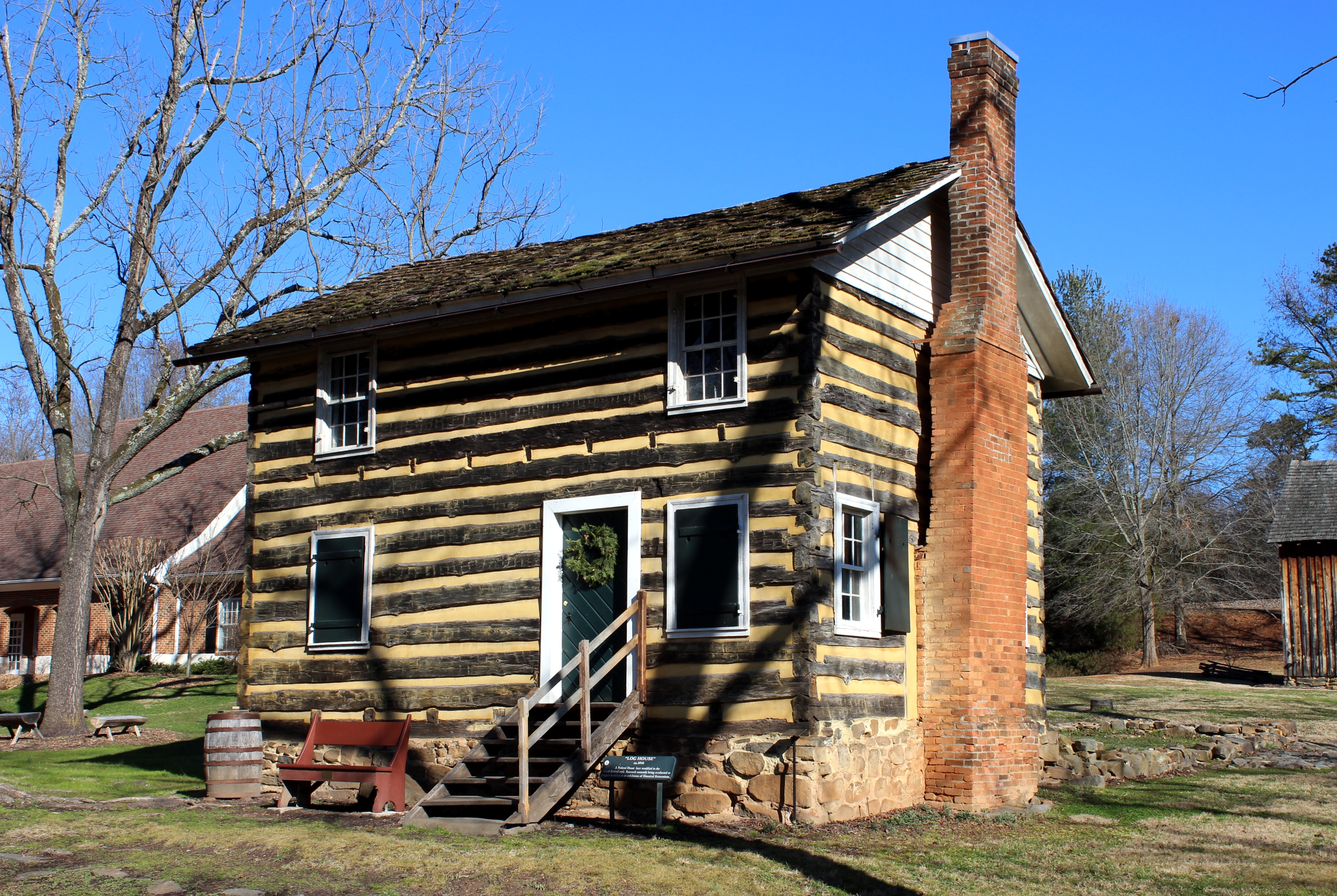 Log house, c. 1815-16 in Historic Bethabara, North Carolina.